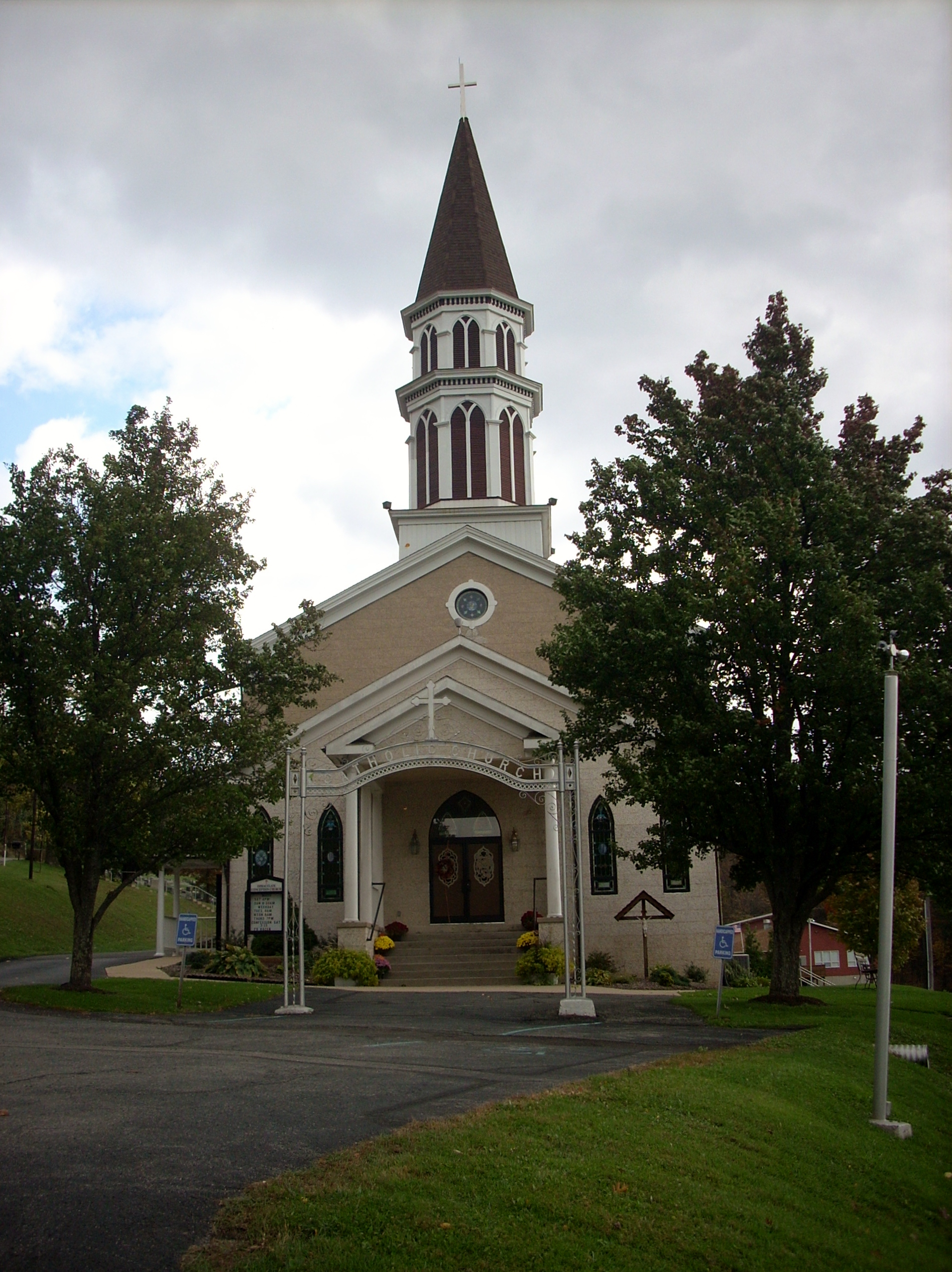 on Jack's Hollow Road in Bastress Township, Lycoming County, Pennsylvania.